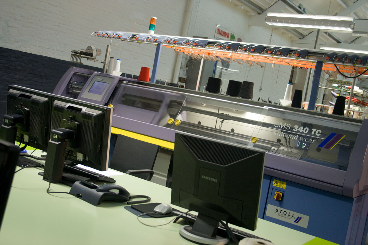 Stoll Flat knitting machine